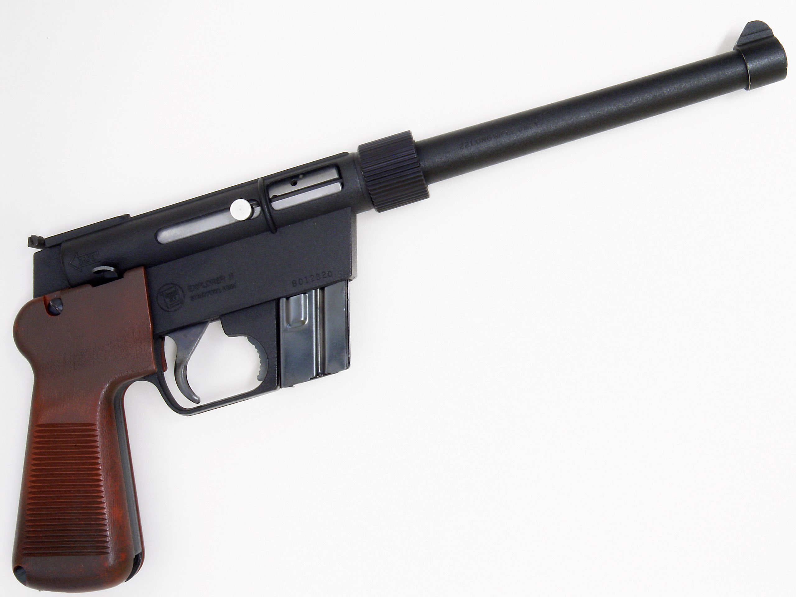 The Explorer II, manufactured by Charter Arms Co., is a pistol version of the .22 LR Armalite AR-7 rifle. The eight inch barrel shown is interchangeable with six or ten inch barrels.